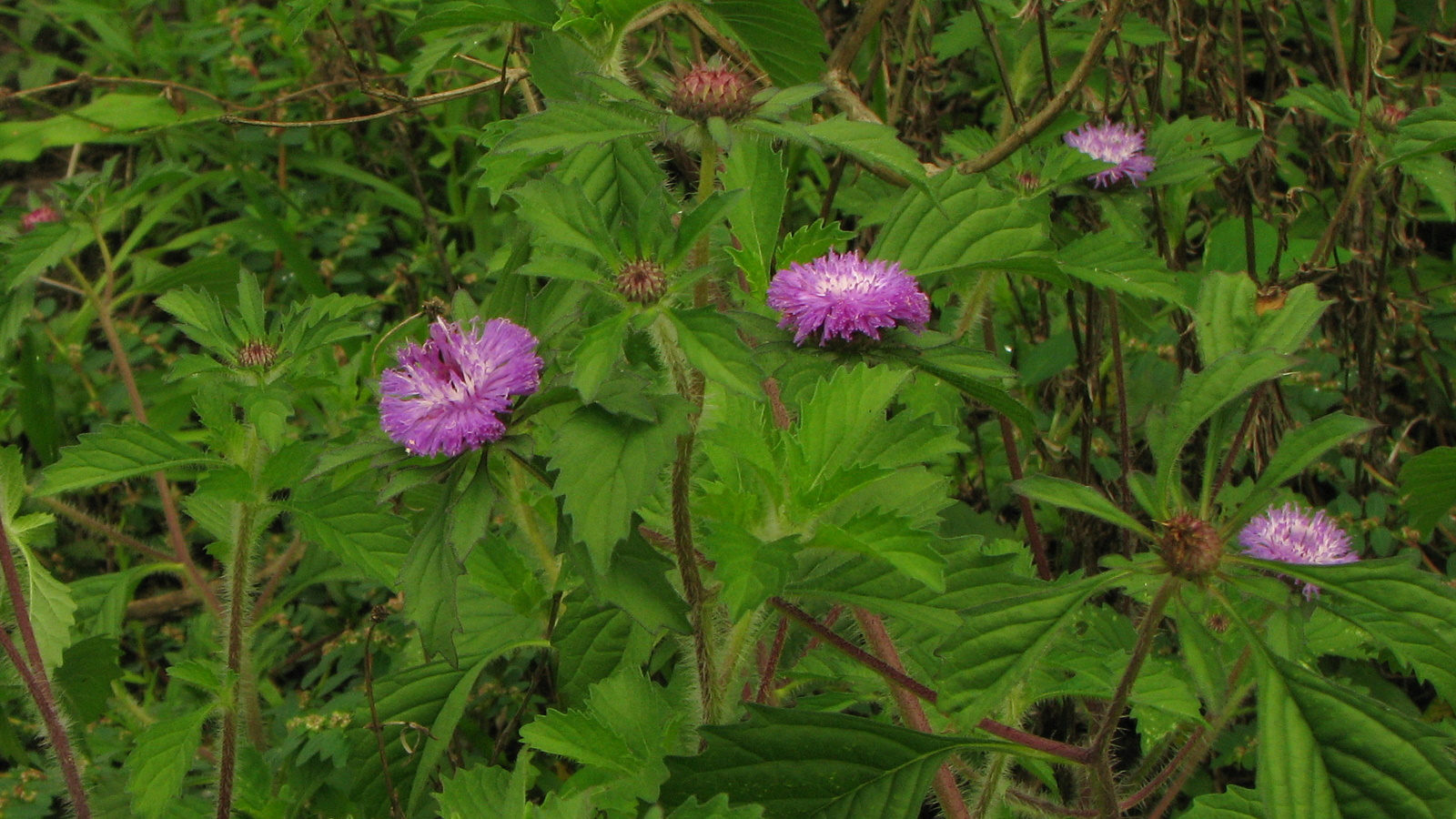 Centratherum punctatum Cass.